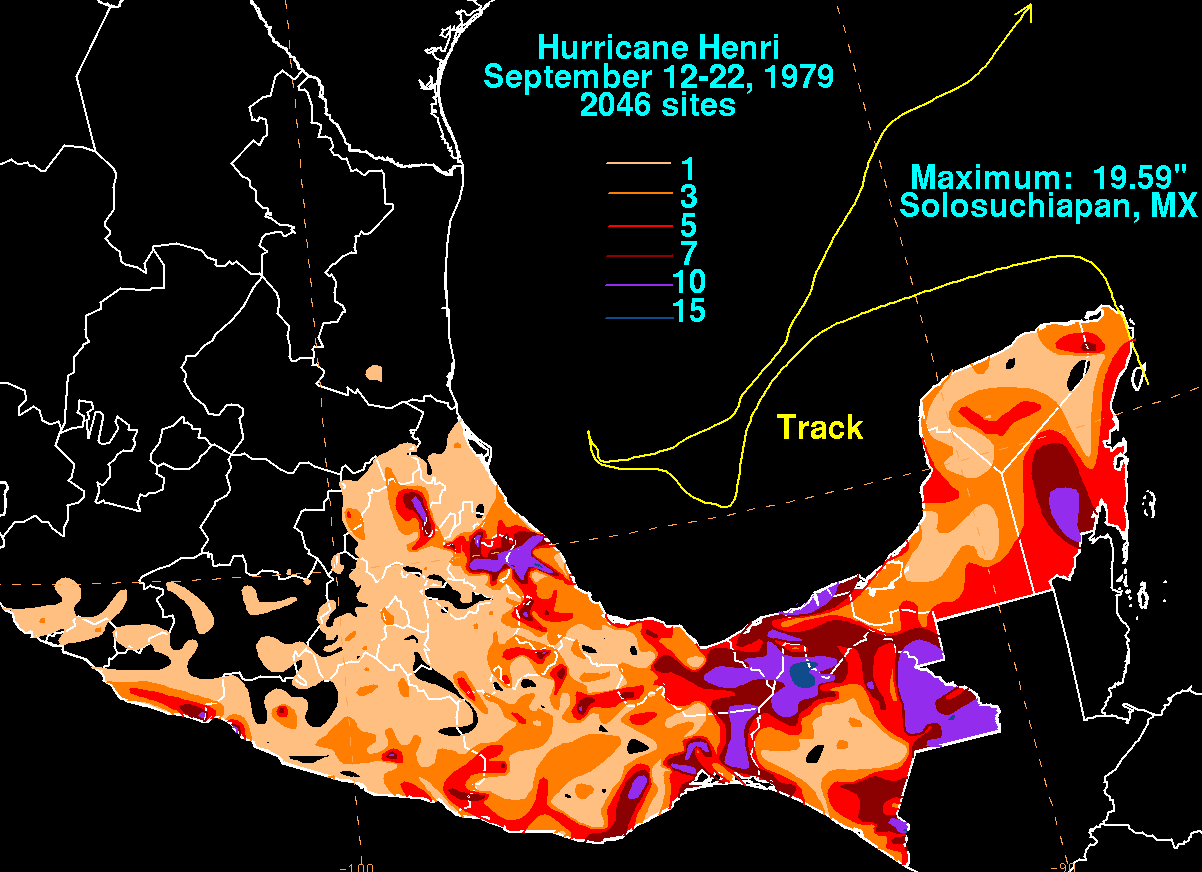 Rainfall produced by Hurricane Henri during September 1979.